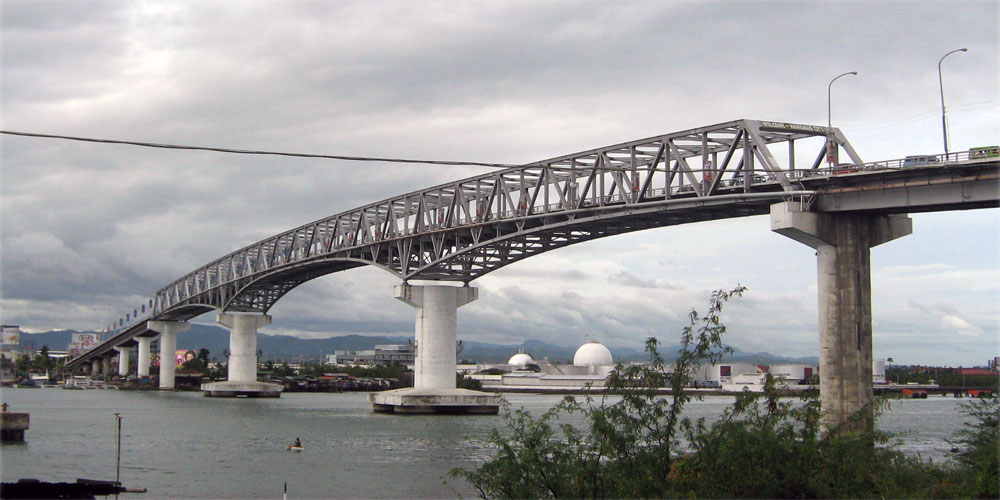 Mactan-Mandaue Bridge connecting Mandaue City (on the island of Cebu) and Lapu-Lapu City (on the island of Mactan)